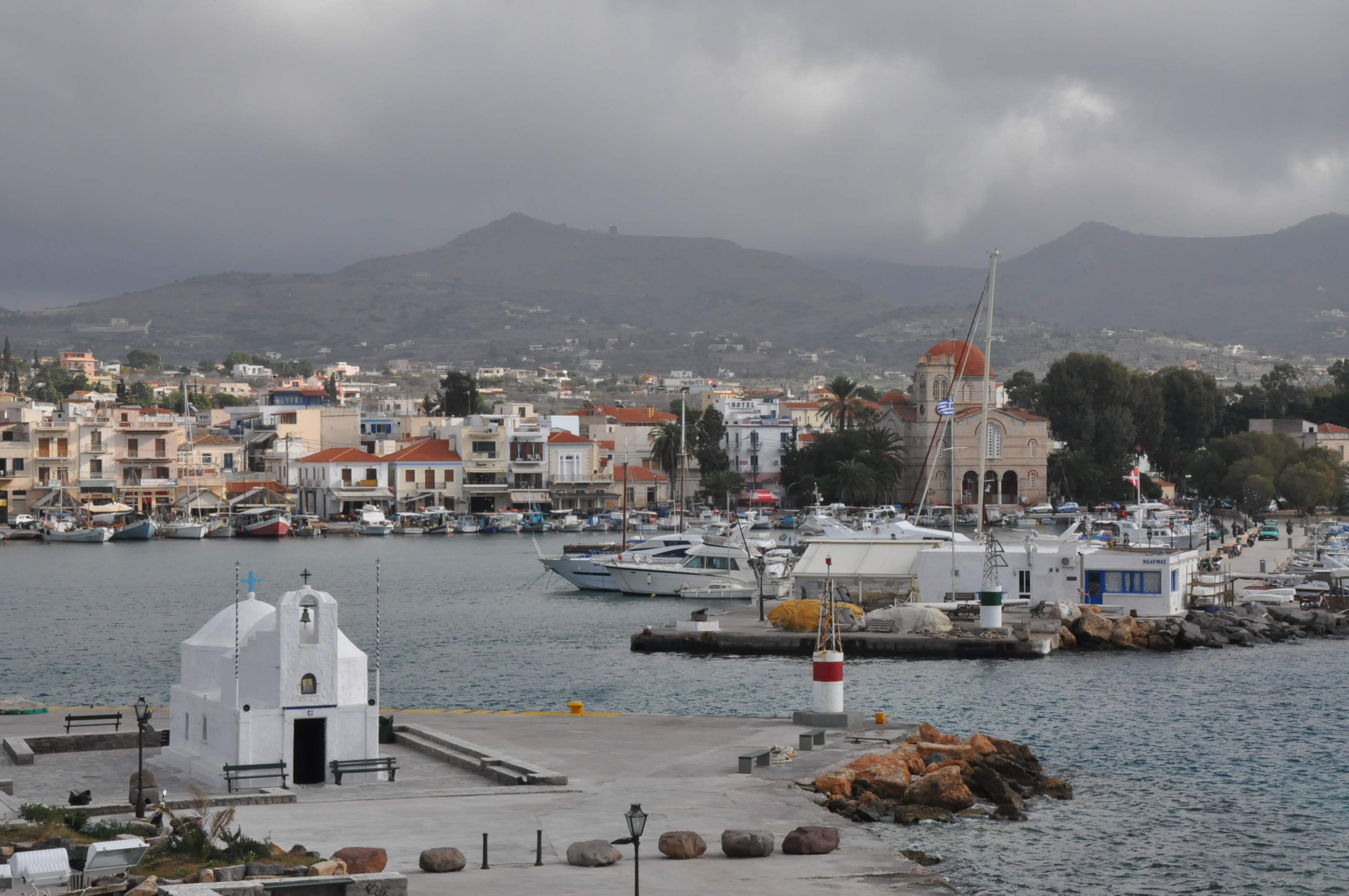 Aegina is one of the Saronic Islands of Greece in the Saronic Gulf, 17 miles (30 km) from Athens. Tradition derives the name from Aegina, the mother of Aeacus, who was born in and ruled the island. During ancient times, Aegina was a rival to Athens, the great sea power of the era. The island, along with offshore islets, comprises the Municipality of Aegina in Piraeus Prefecture, a part of the Attica region. The capital is the town of Aegina (pop. 7,410 in 2001 census), situated at the northwestern end of the island. Due to its proximity to Athens, it is a popular quick getaway during the summer months, with quite a few Athenians owning second houses on the island.